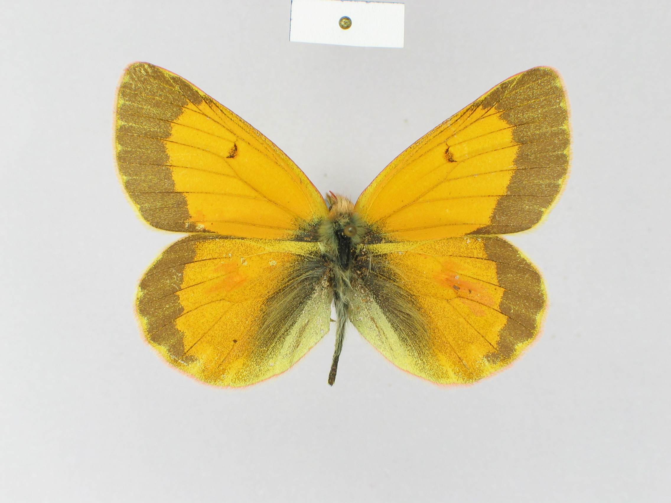 Specimen of the species Colias stoliczkana stoliczkana from the collection of the Museum für Naturkunde; ♂ dorsal side; scalebar=1 cm